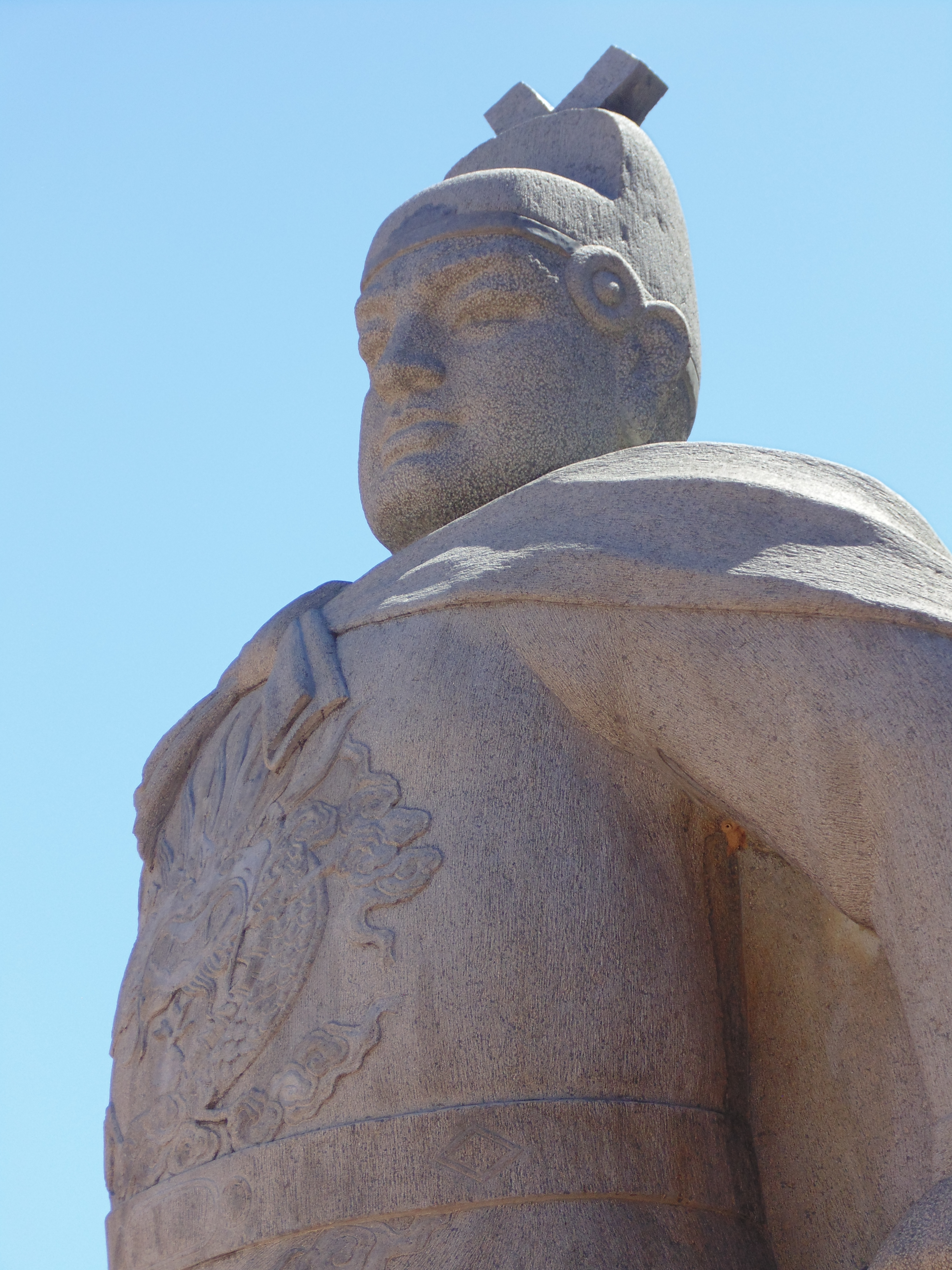 Monument of Zheng He. Malacca